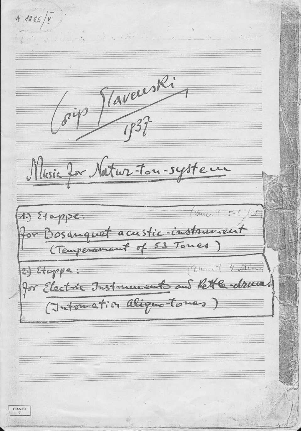 Josip Slavencki. Title with 53EDO movement. Manuscript